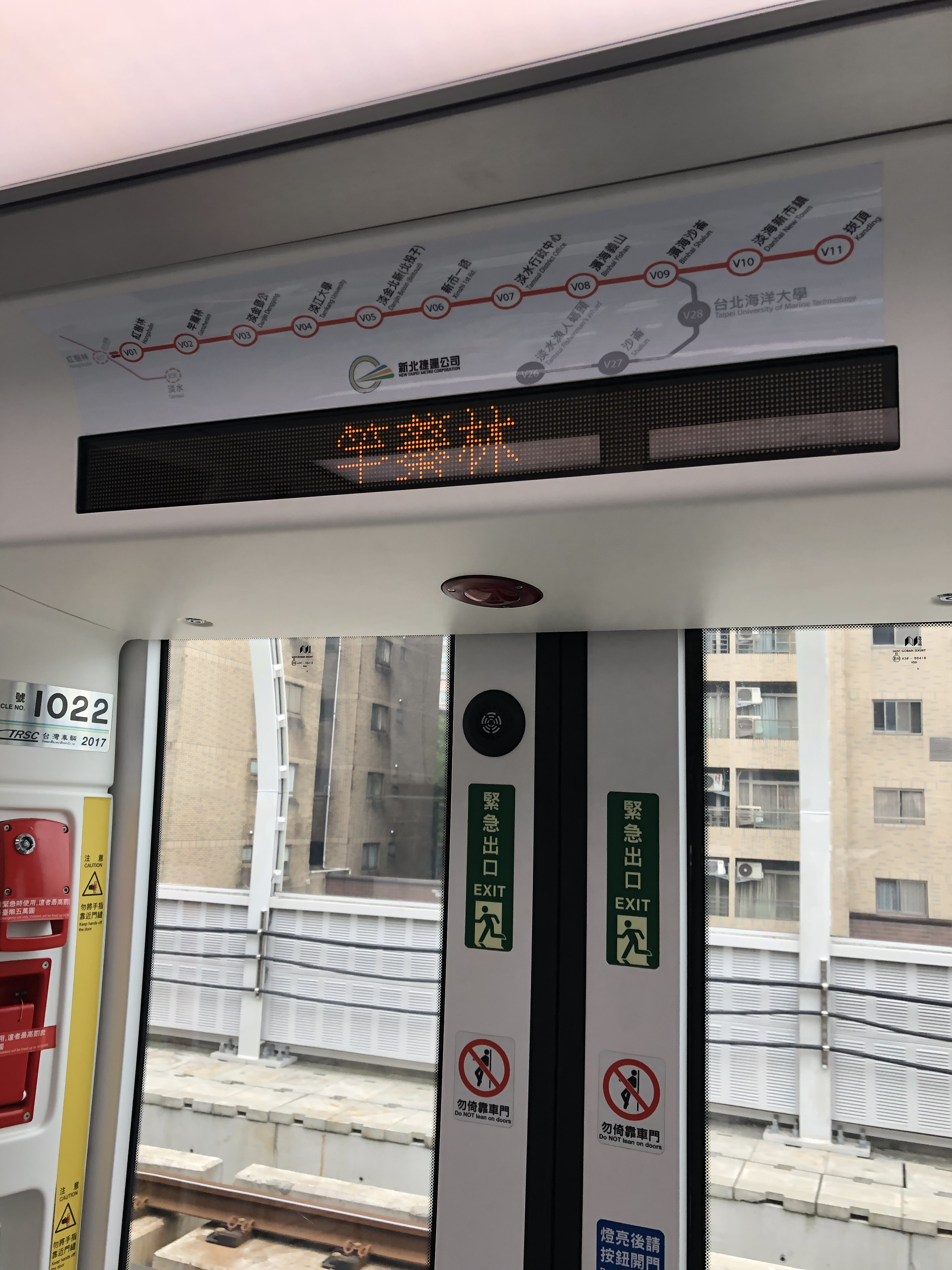 Route map and current station display above the door of a Danhai LRT tram